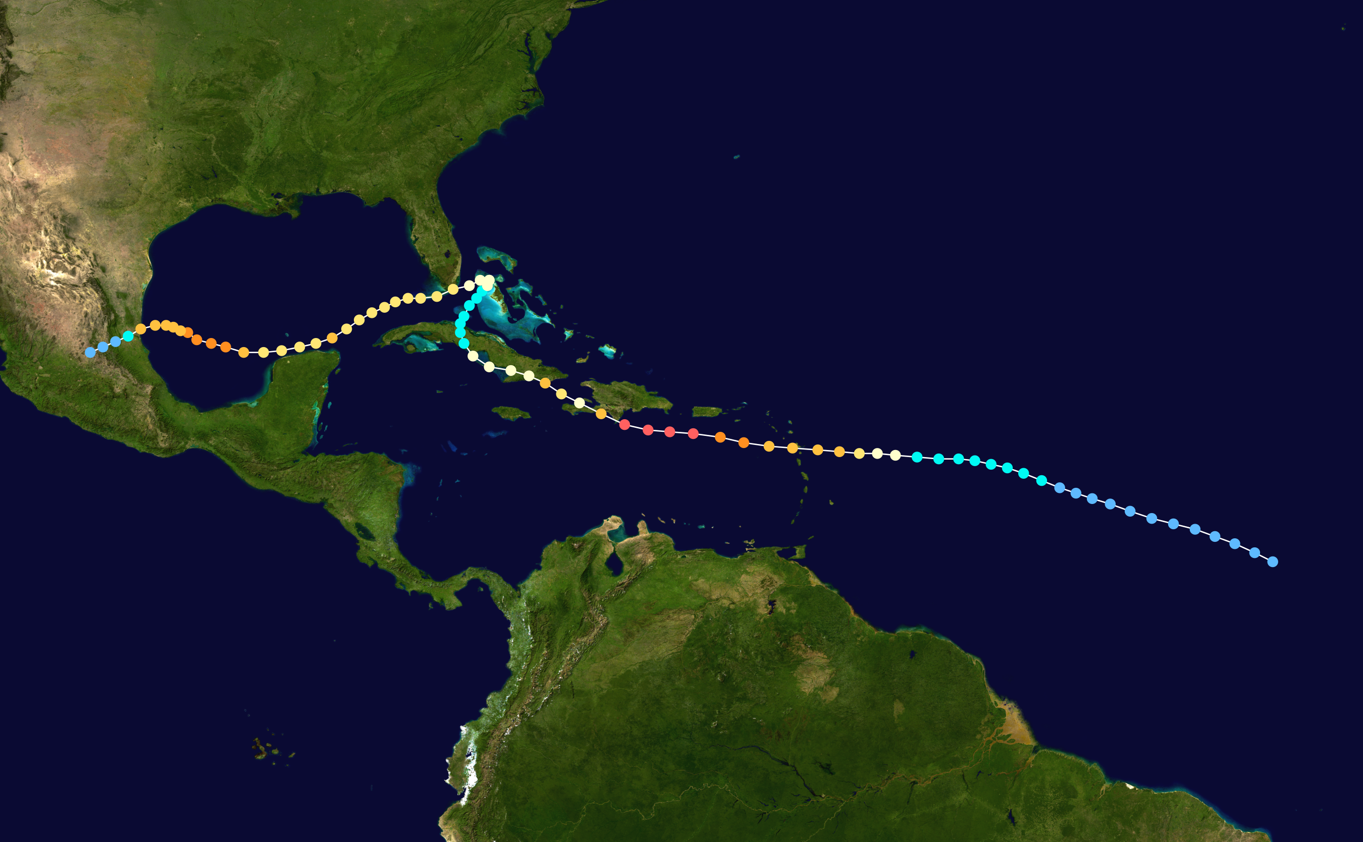 Hurricane Inez (1966) track. Uses the color scheme from the Saffir-Simpson Hurricane Scale.